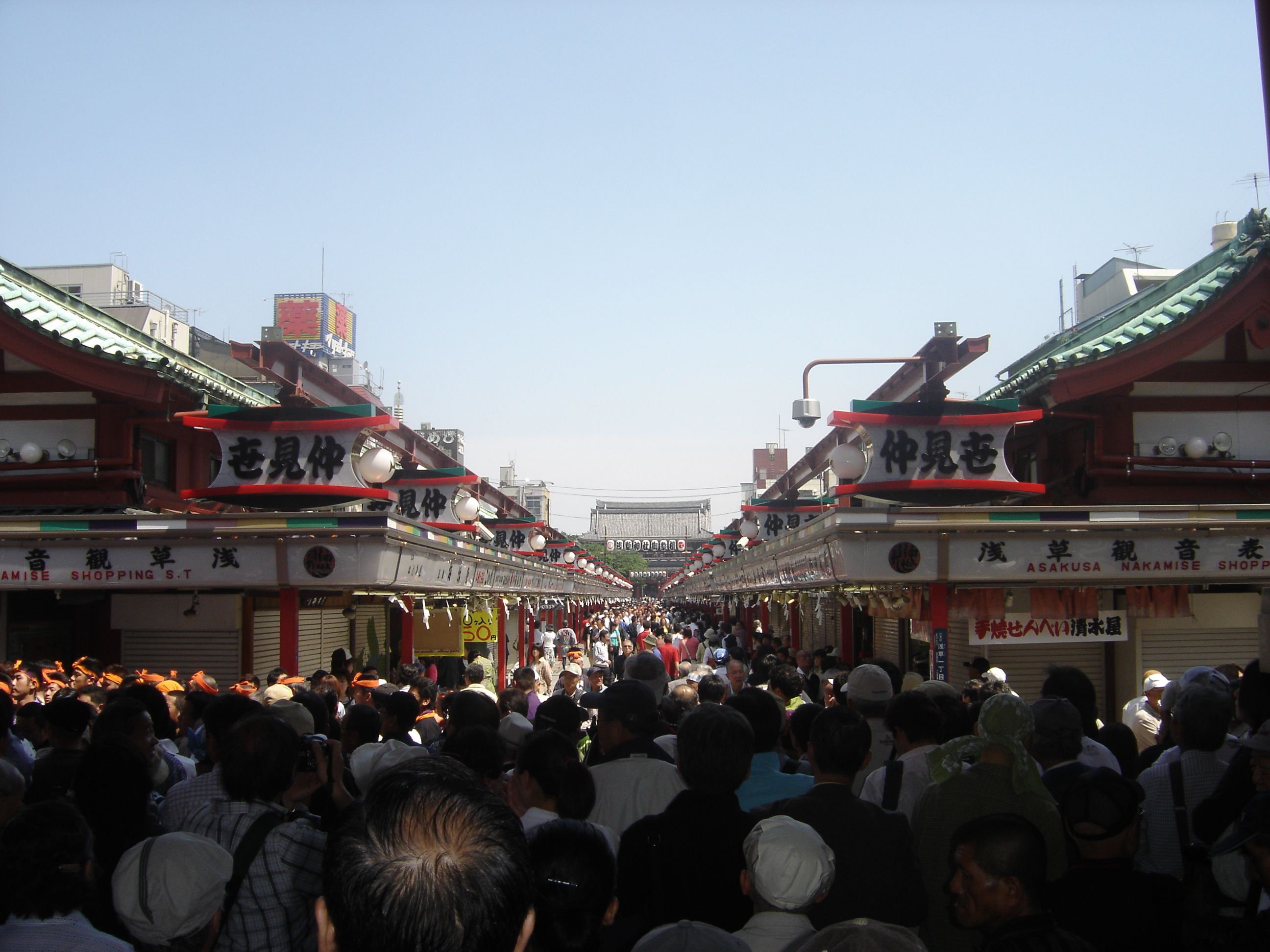 A view of the Nakamise, a famous street lined with small shops that leads to Senō-ji during Sanja Matsuri.